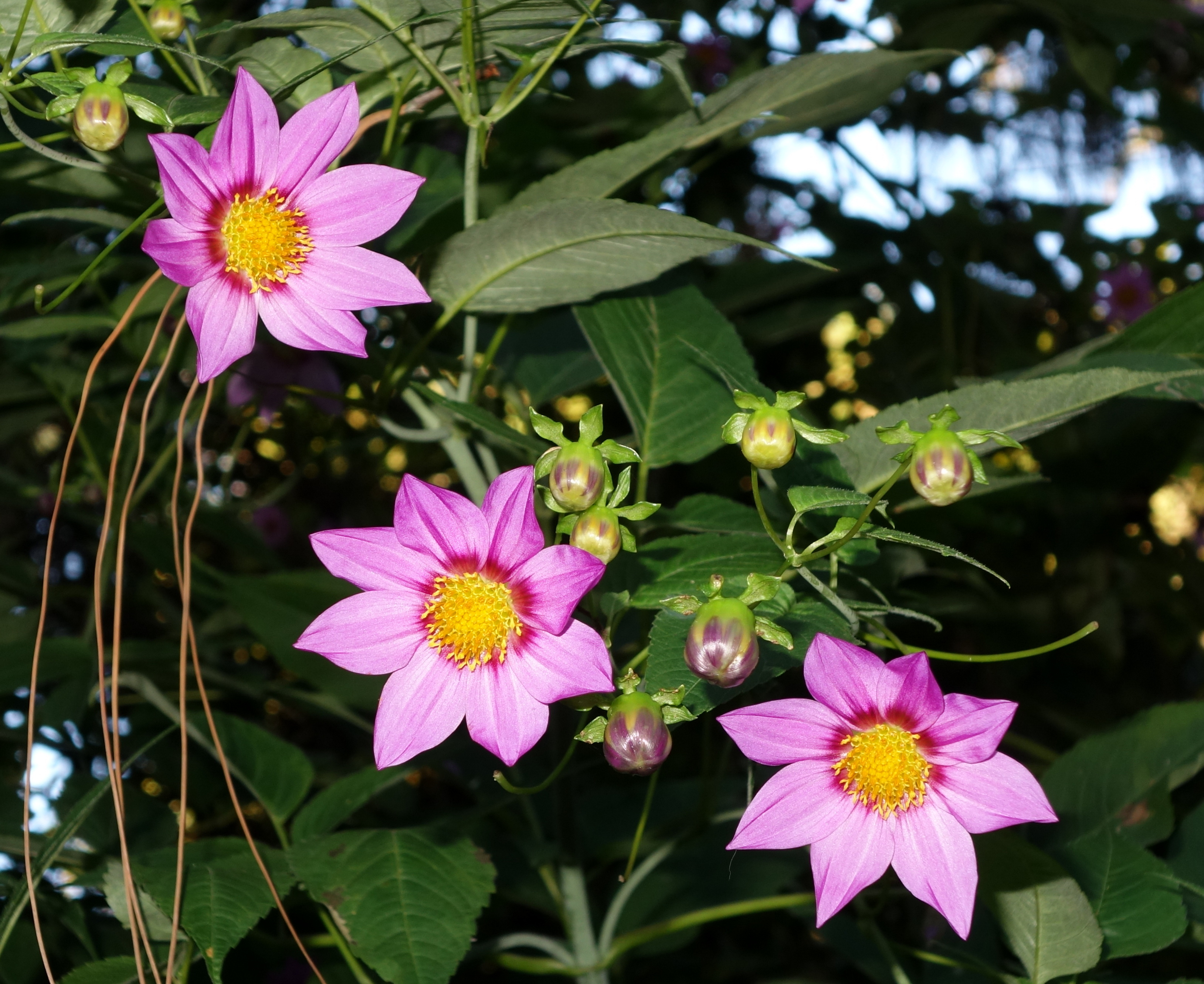 Botanical specimen in the San Francisco Botanical Garden, San Francisco, California, USA.